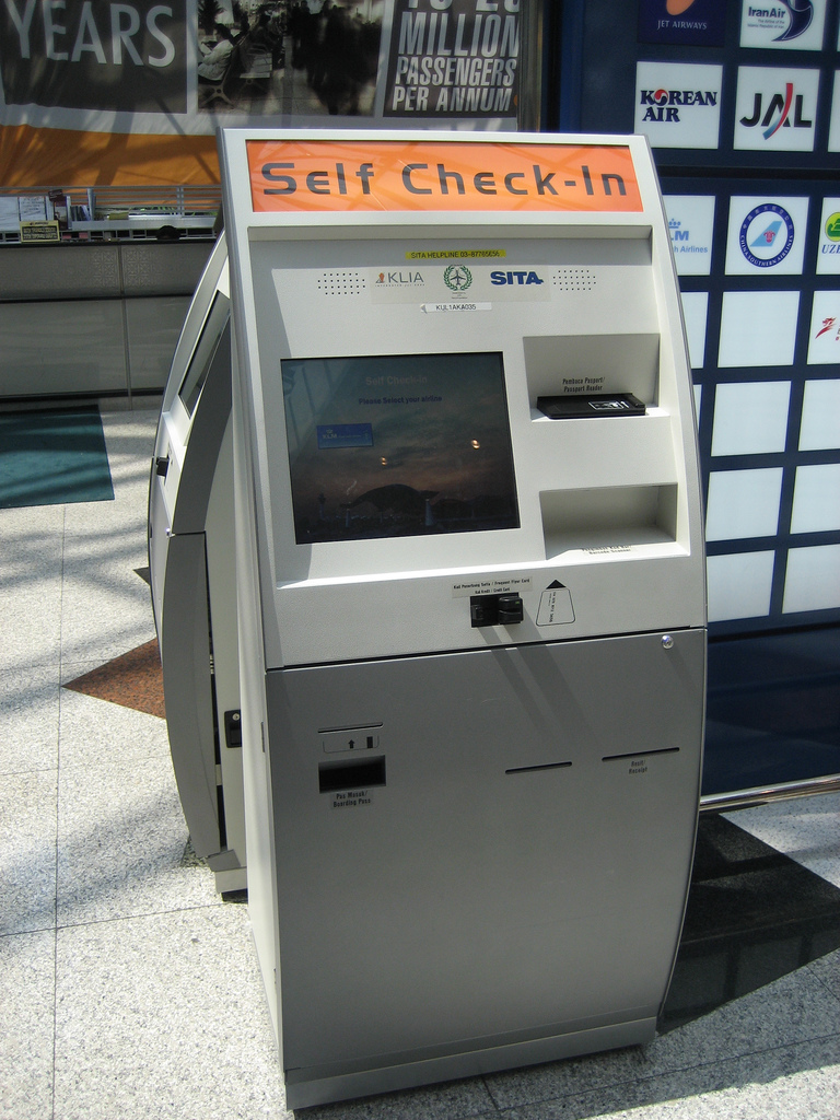 KLIA CUSS